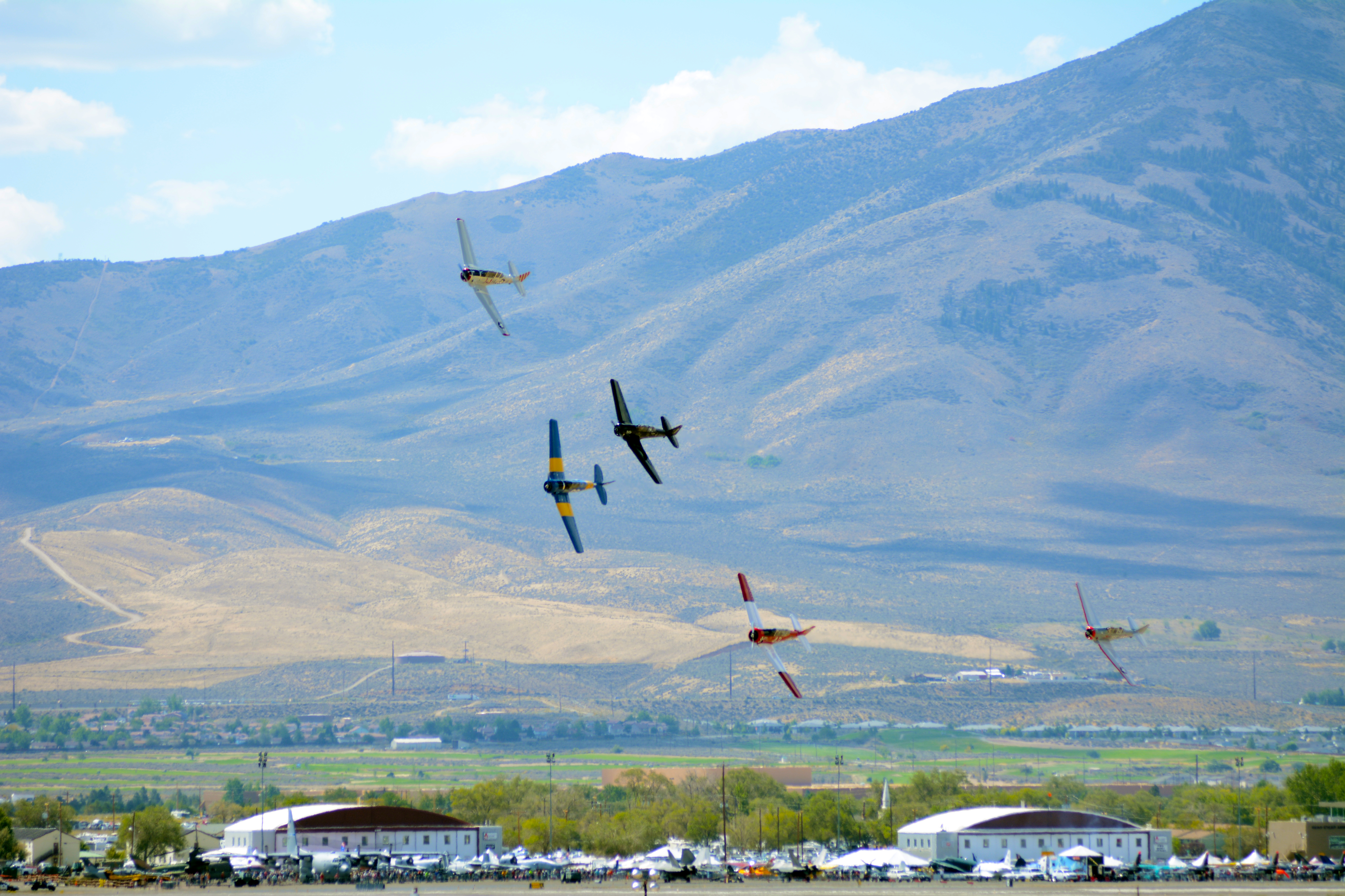 T 6 Gold Start 2014 Reno Air Races photo D Ramey Logan